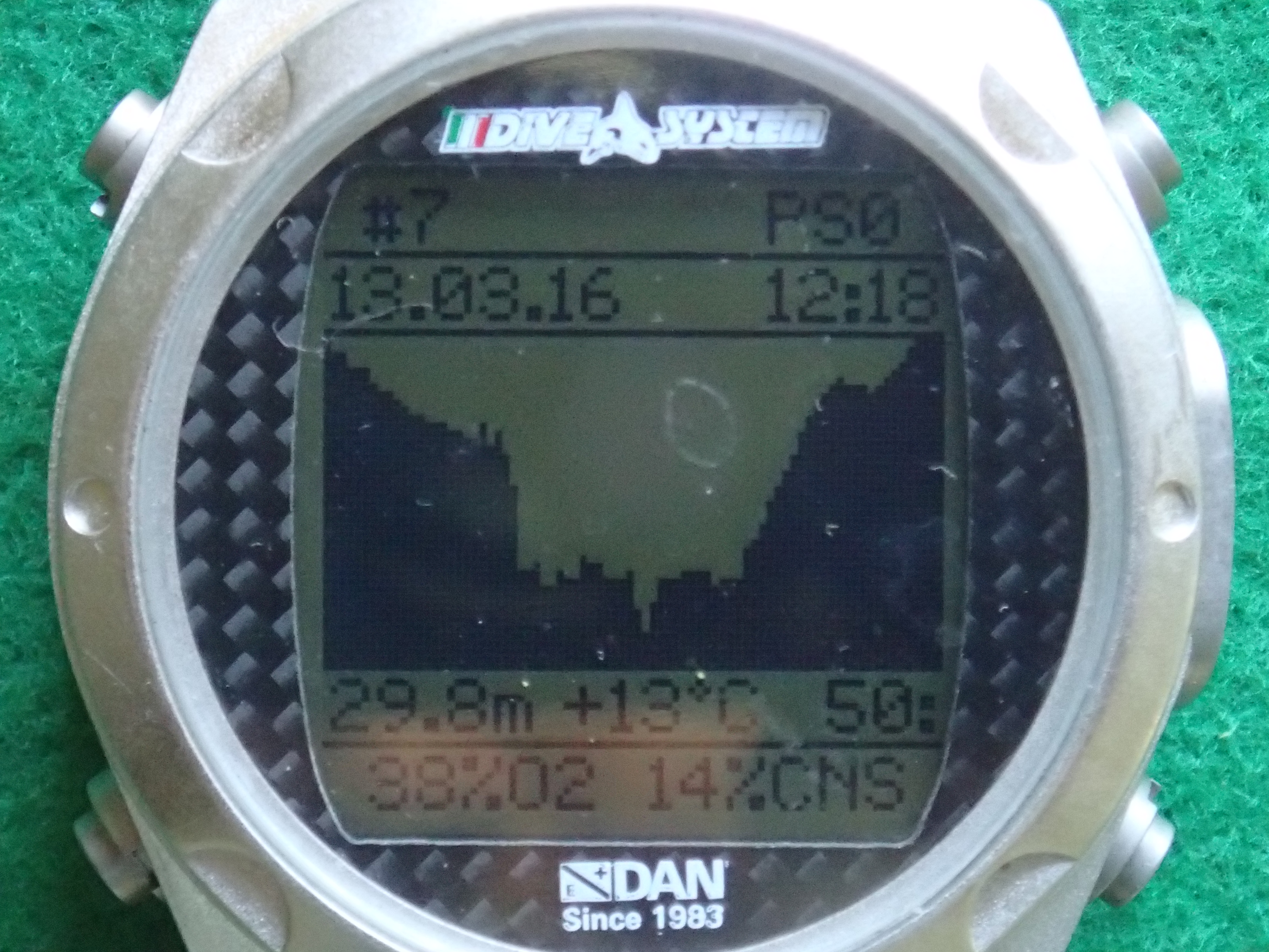 iDive DAN personal dive computer dive log display showing dive profile graph and other related data